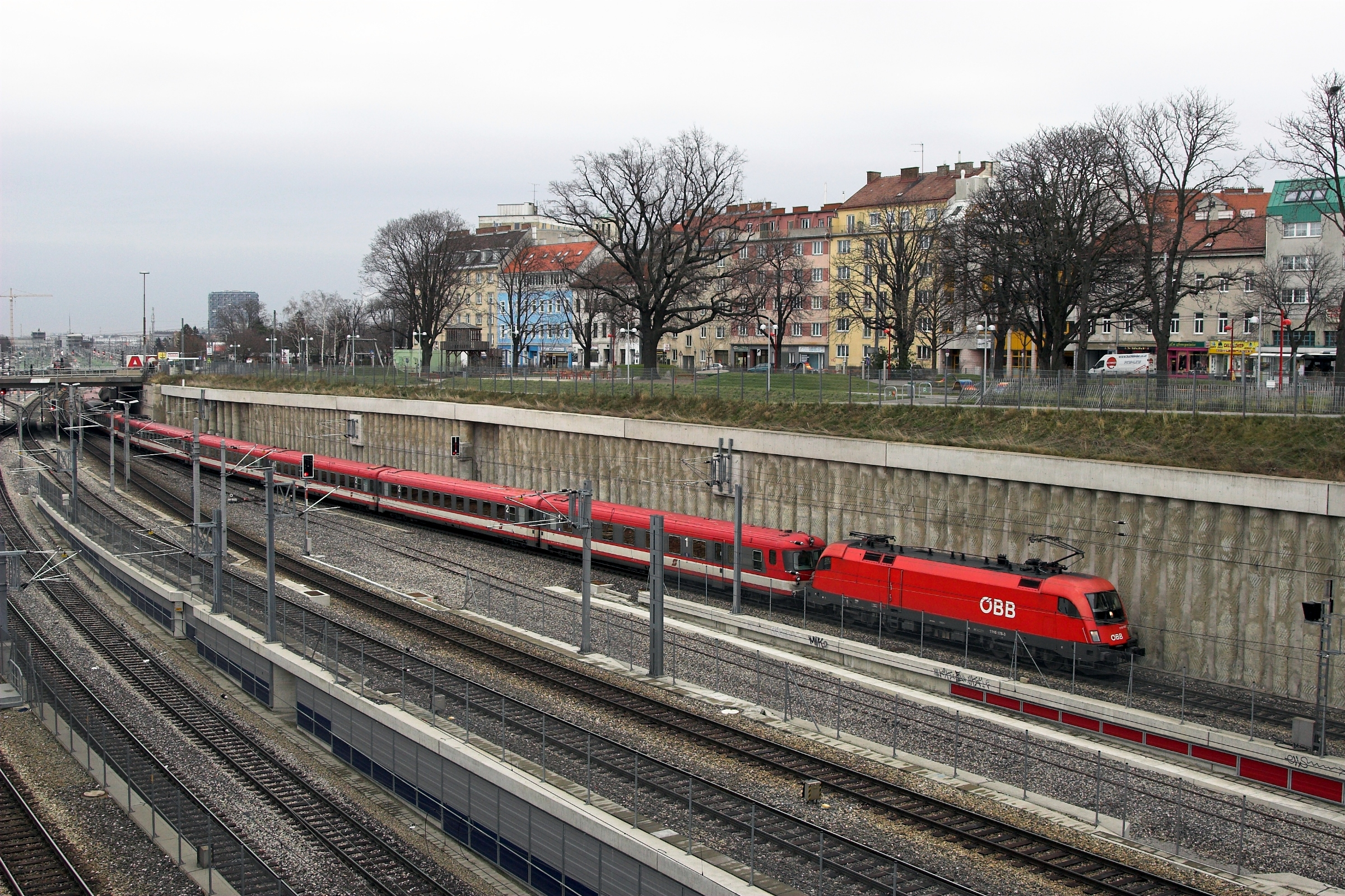 An ÖBB 4010 double unit leaves Wien Meidling station with a Christmas holidays special. Due to a defective power unit the train had to be pulled by a 1116 electric. This was the very last time a 4010 left Vienna with a public passenger train.